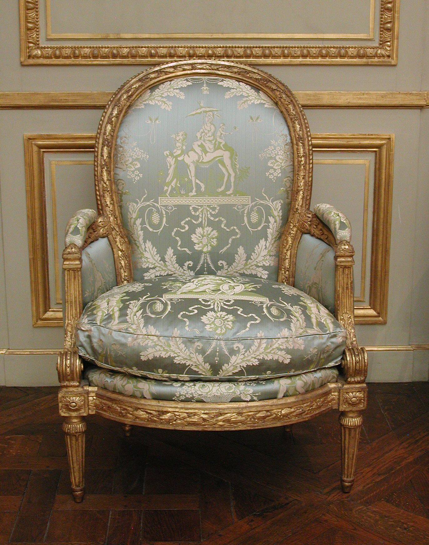 French, Paris; Armchair; Woodwork-Furniture